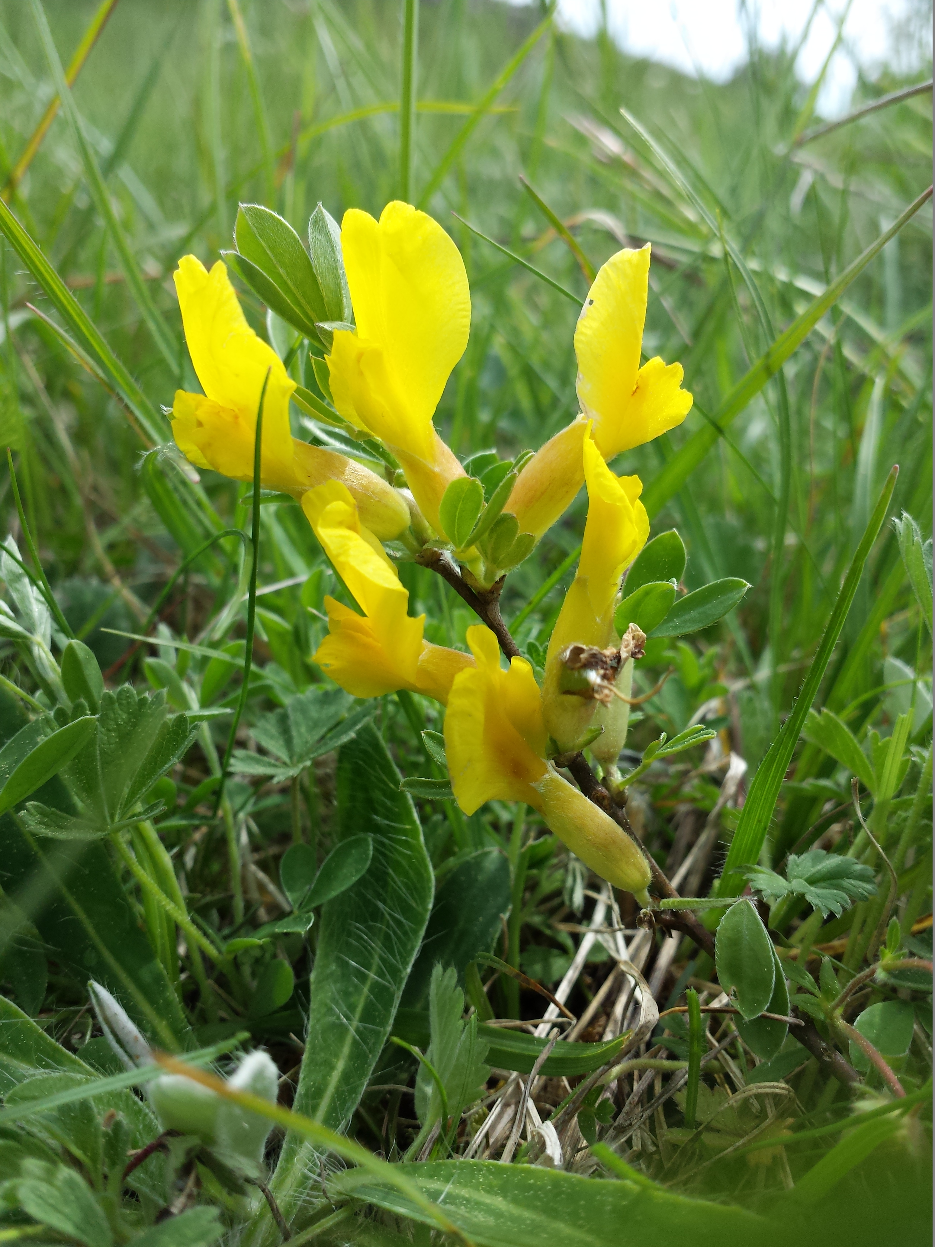 Inflorescence Taxonym: Chamaecytisus ratisbonensis ss Fischer et al. EfÖLS 2008 ISBN 978-3-85474-187-9 Location: Leiser Berge, district Korneuburg, Lower Austria - ca. 400 m a.s.l. Habitat: dry grassland on Limestone